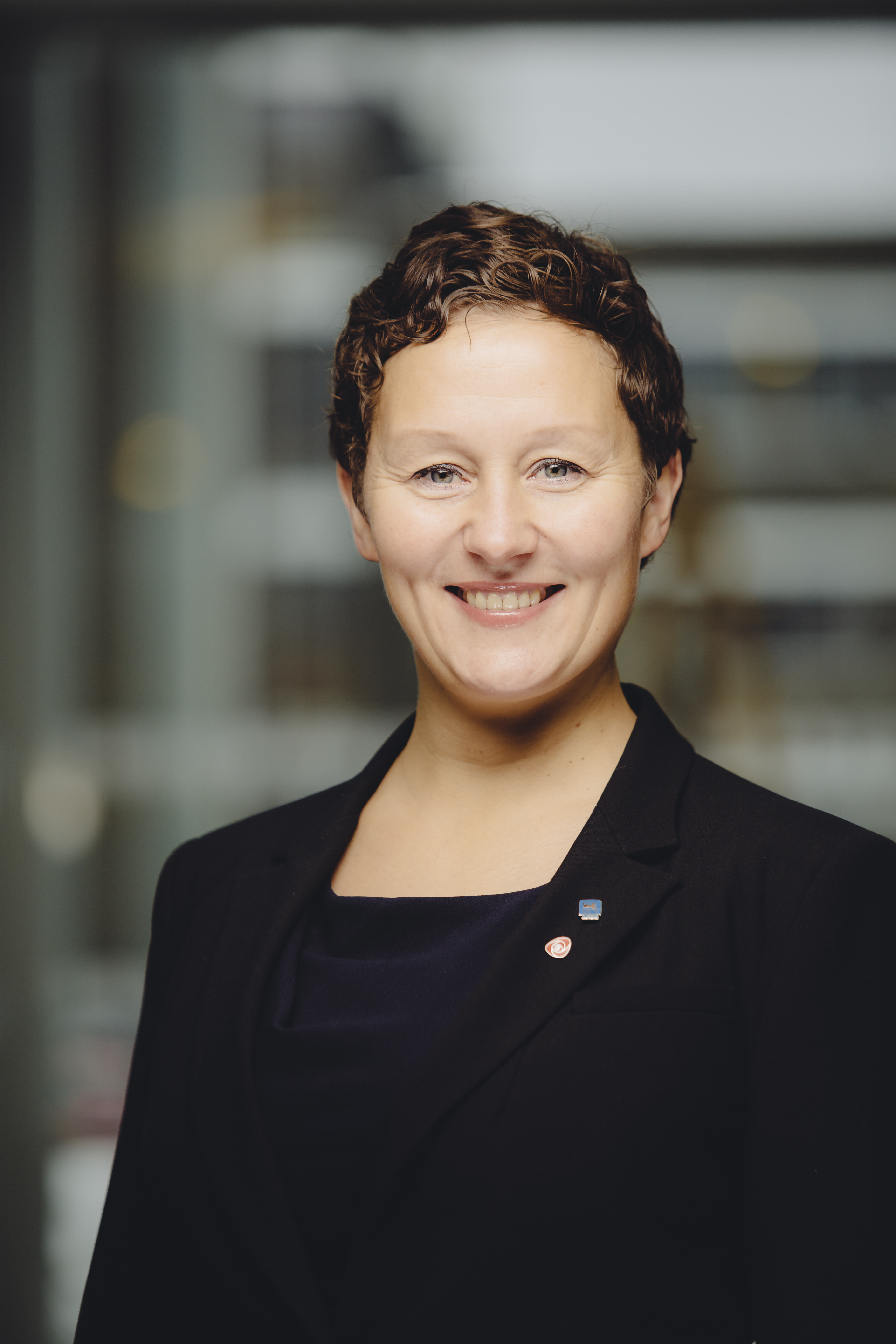 Kristin Røymo. Tromsø kommune portrettfoto